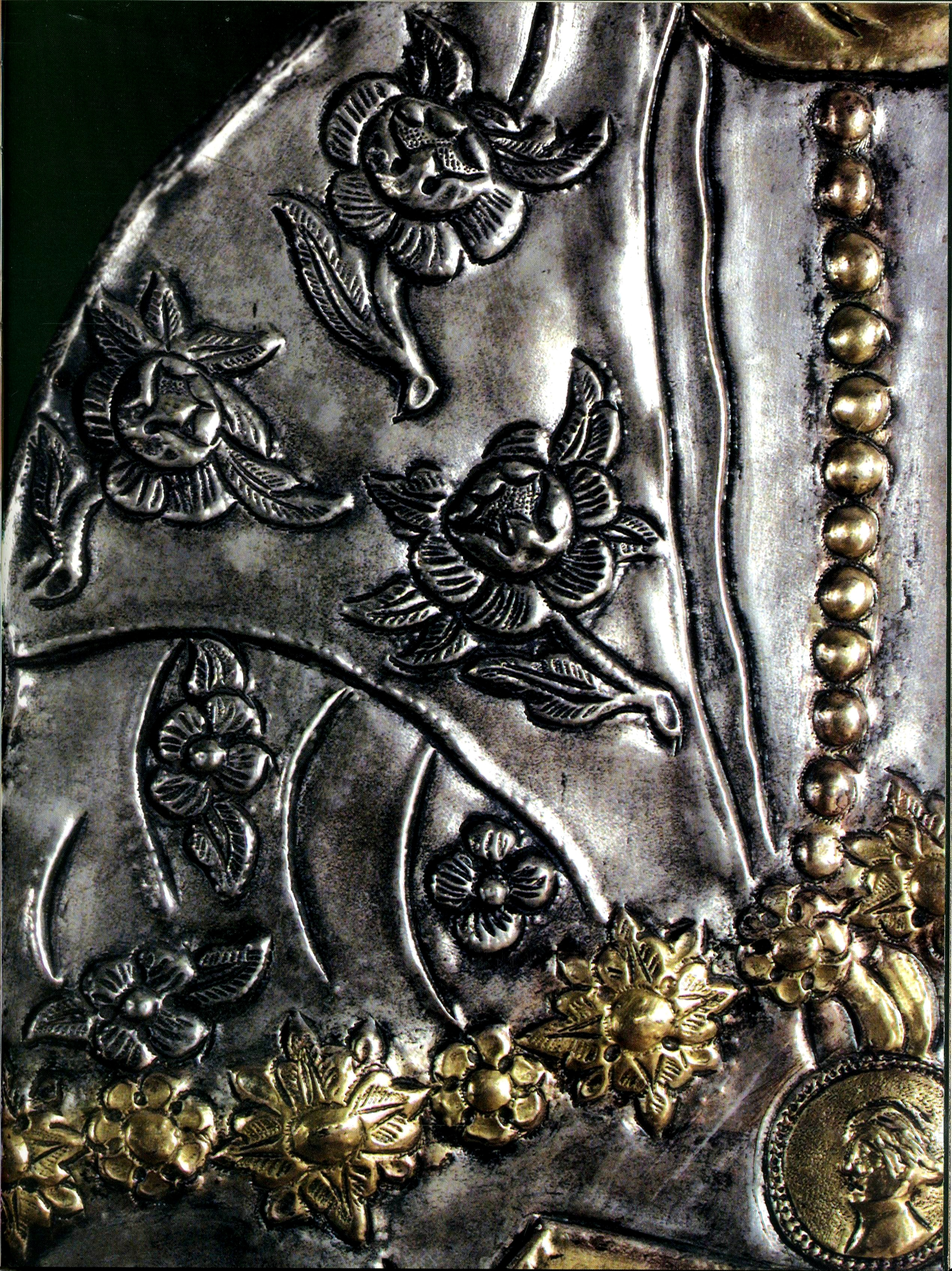 METAL MOUNTING OF ICON THE ADORATION OF THE MAGI. 2d half of the 18th с Metal, minting. St. Peter and Paul's Church, Drysviaty, Braslau district, Vitsiebsk region.